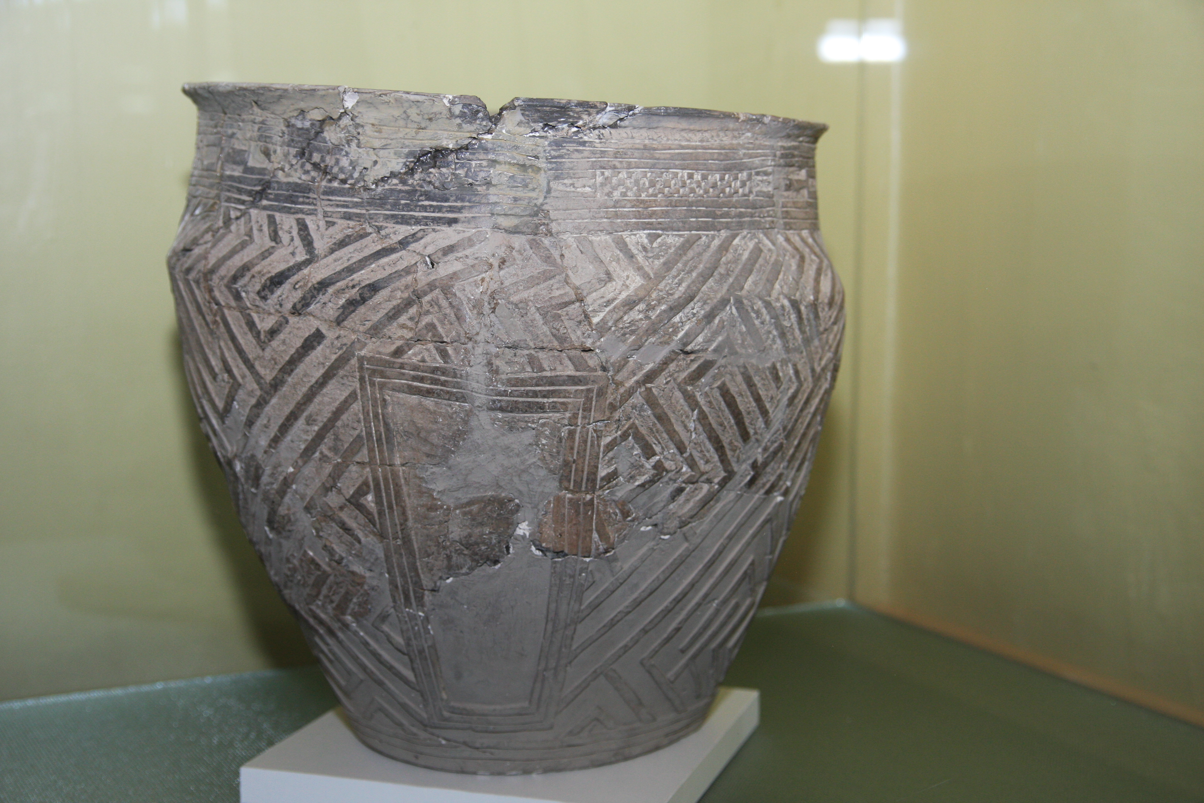 Neolithic Boian Culture pottery exposed in Piatra Neamt Museum